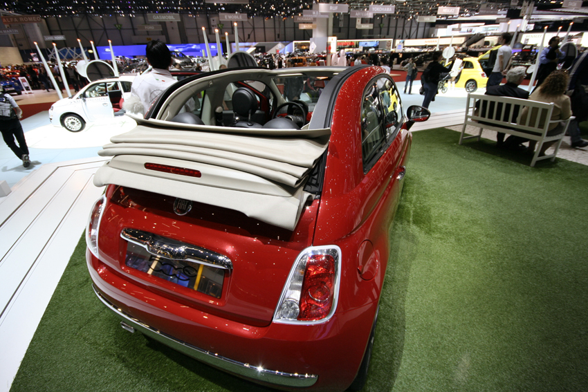 Fiat 500C.